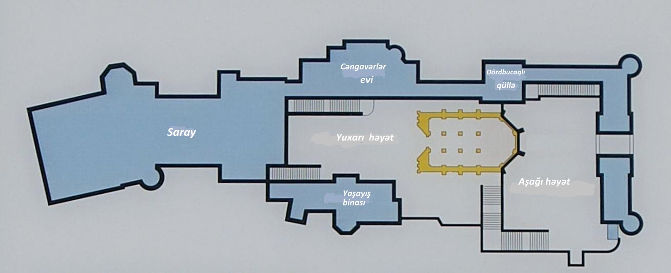 Nöyşvanştayn plan in Azerbaijani